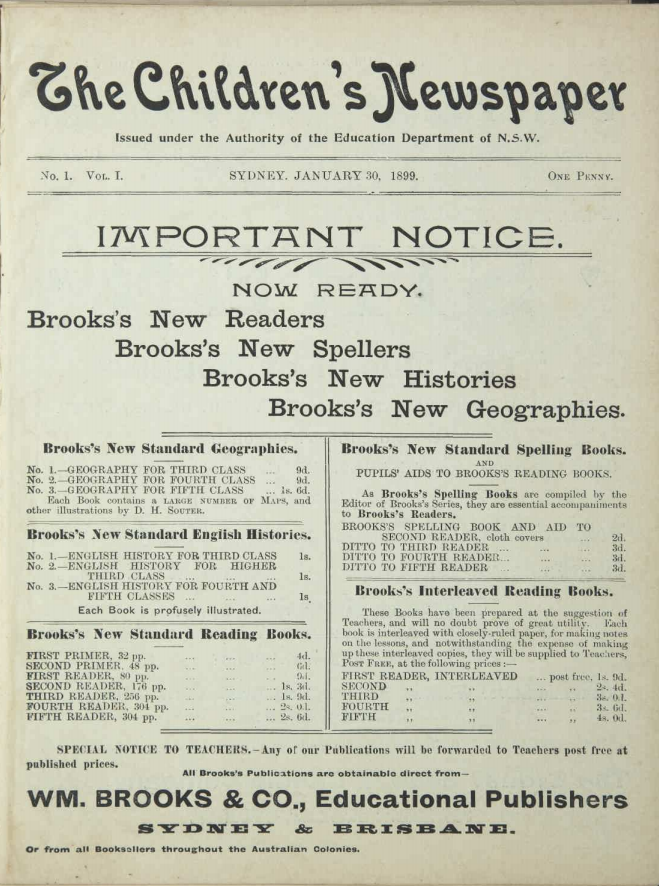 Cover page of an historic newspaper from New South Wales, Australia